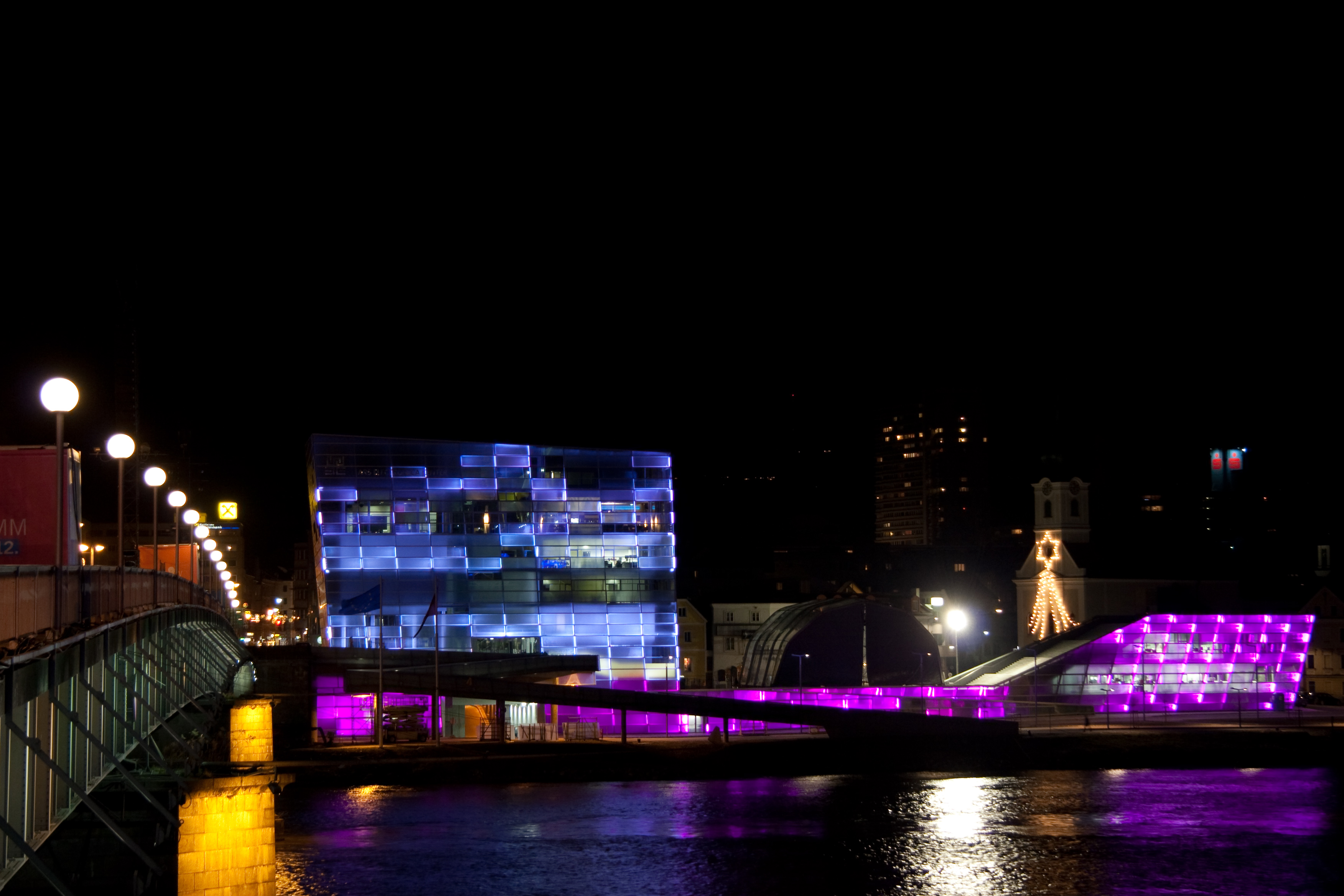 The renovated Ars Electronica Center at Linz, seen from the bridge across the Danube at night 48°18′35″N 14°17′4.7″E / 48.30972°N 14.284639°E